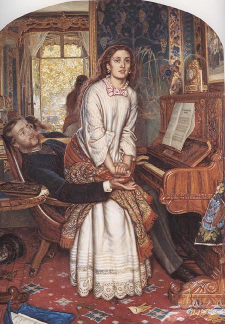 William Holman Hunt , The Awakening Conscience (1851-53): the moment in which the seduced woman recognises her crime.